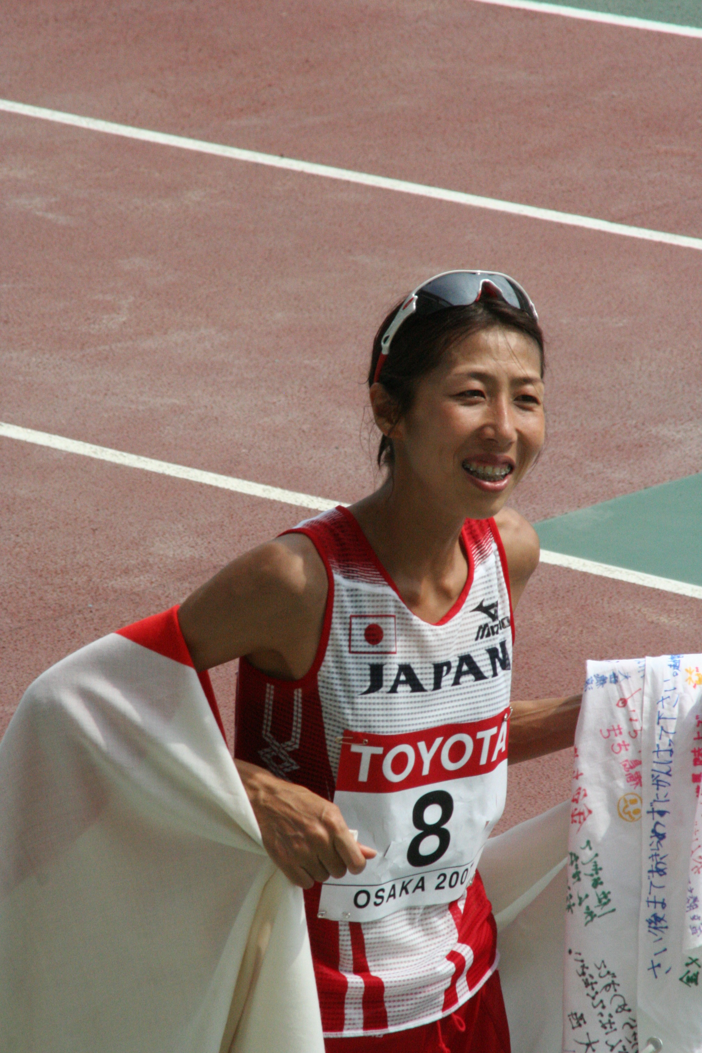 World Athletics Championships 2007 in Osaka - Marathon runner Reiko Tosa after winning the only medal for the host nation at the event.